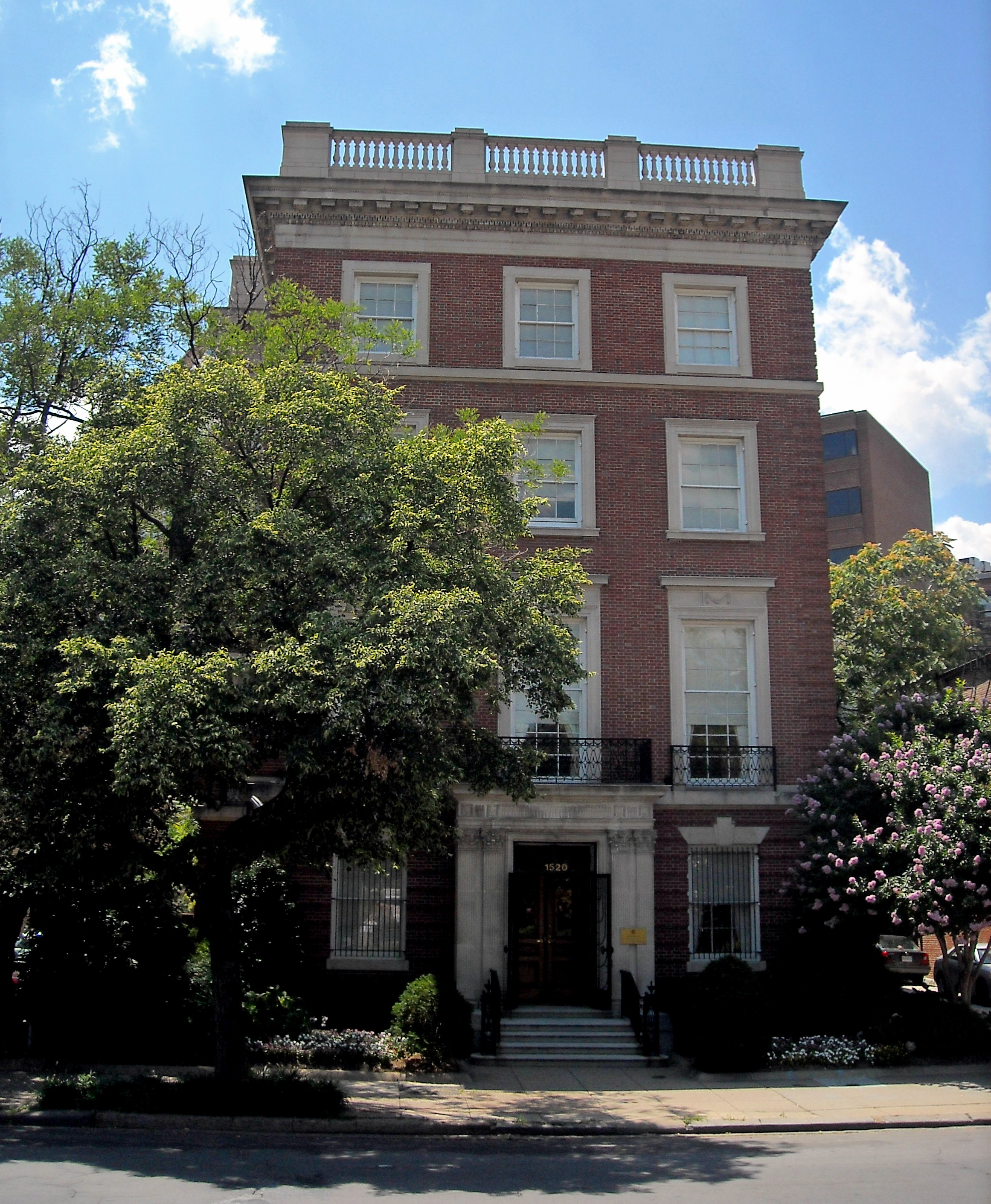 The Hong Kong Economic and Trade Office (HKETO), also known as the R.S. Hitt House, located at 1520 18th Street, NW in the Dupont Circle neighborhood of Washington, D.C. The Georgian Revival building was designed by local architect Jules Henri de Sibour. Construction of the home was completed in 1914 at a cost of $77,000. It has served as the Washington, D.C. HKETO since the 1990s. Notable past owners of the building include Robert Stockwell Reynolds Hitt (ambassador; member of the Hitt political family), Ogden L. Mills (residence while serving as U.S. Undersecretary of the Treasury), Dwight F. Davis (residence while serving as U.S. Secretary of War), Walter Evans Edge (residence while serving in the U.S. Senate), Bernard Baruch (residence while serving as adviser to Franklin D. Roosevelt), the Structural Clay Products Institute (headquarters during the 1950s–1960s), and the government of Saudi Arabia (Embassy of Saudi Arabia during the 1970s–1980s). The 40-room, five-story building is a contributing property to the Dupont Circle Historic District. Its 2009 property value is $5,691,210.